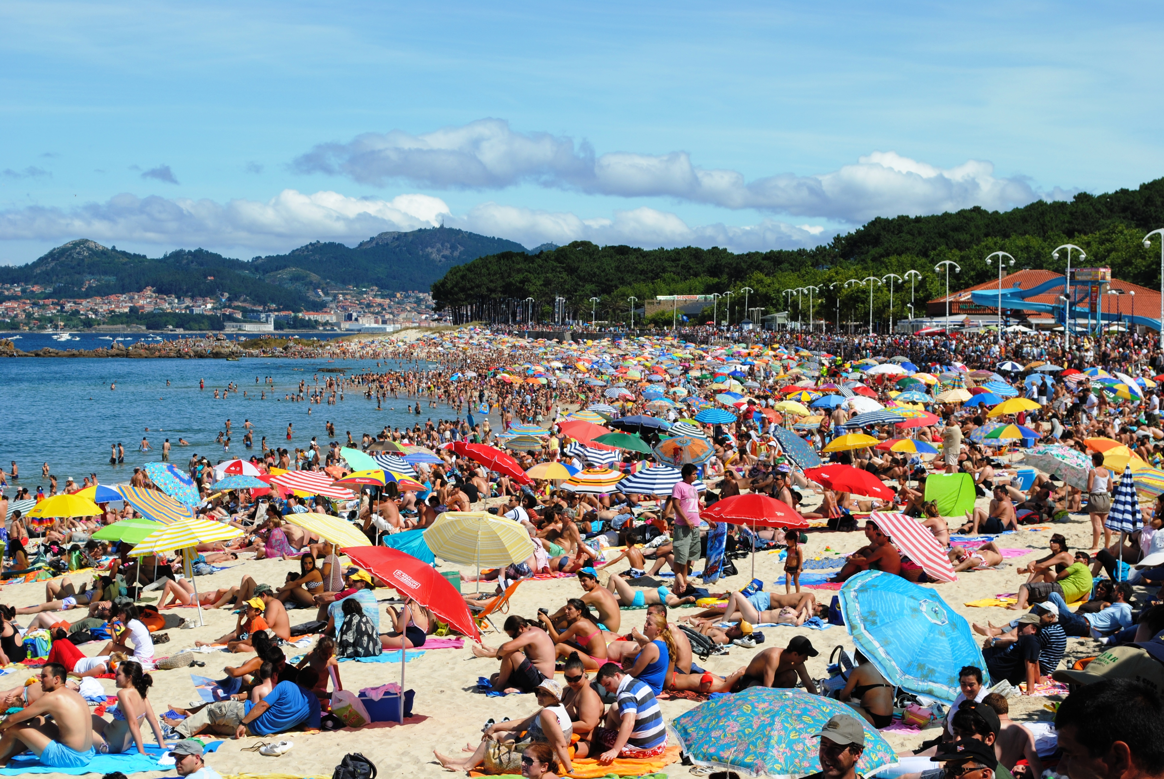 See title